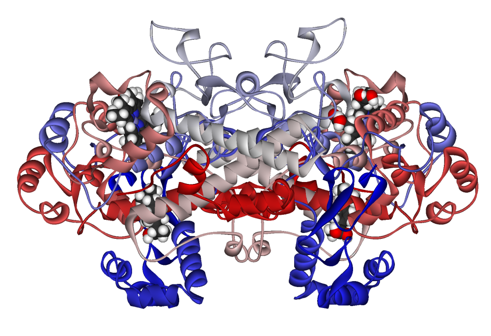 Ribbon diagram of ovine cyclooxygenase-1 (COX-1) with ibuprofen bound. Colored from N- to C-terminal end. Created using Accelrys DS Visualizer Pro 1.6 and GIMP.